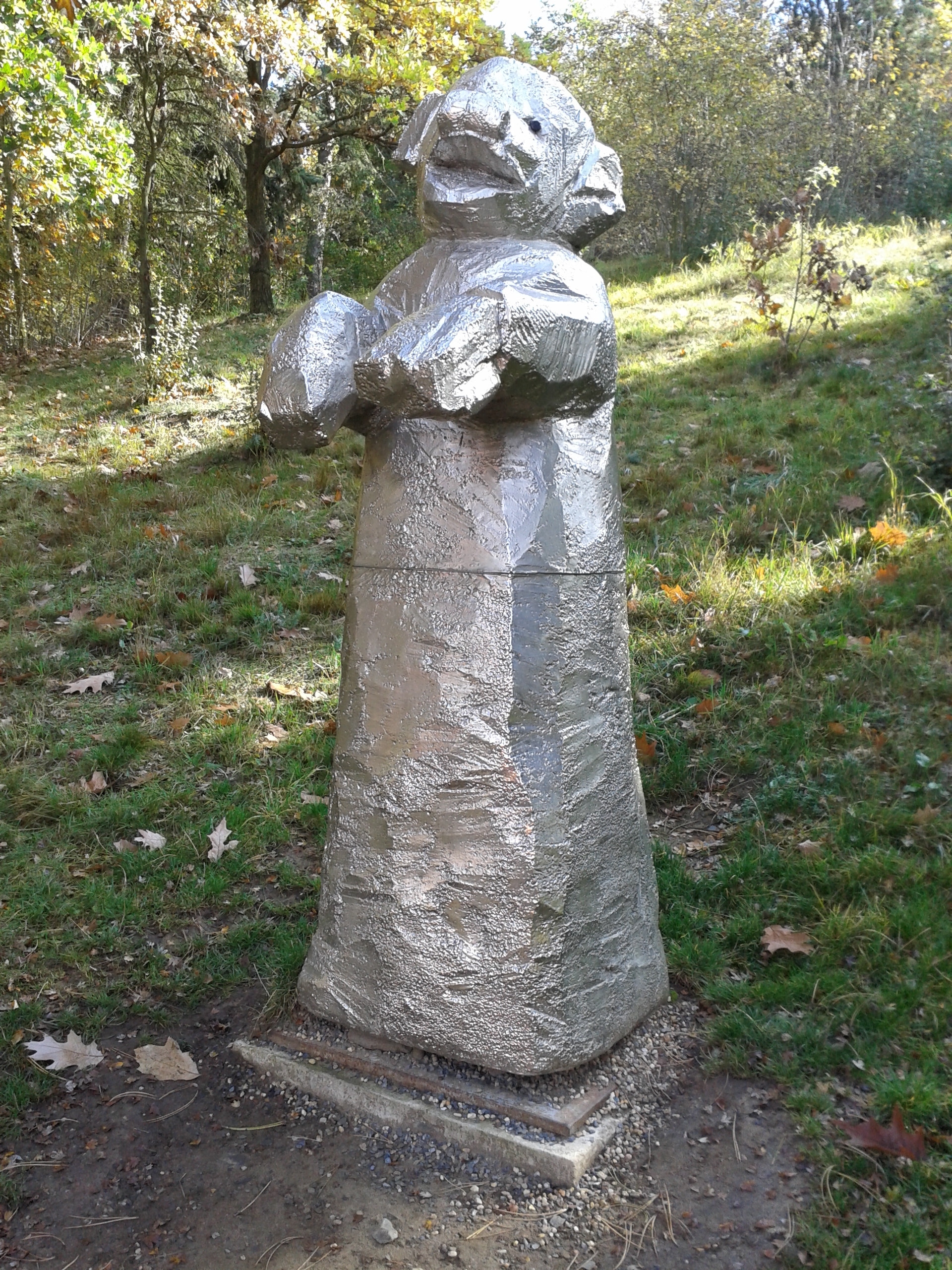 "Snow white" - Author: Kurt Gebauer (* 18 August 1941), Technique: galvanoplasty; year 2014; approximate height: 2 meters; Location: By the main road on a slope in close proximity to Gočar's houses - Zoo Prague - Troja, Czech republic. During World War II was the Director of the Prague ZOO (from November 1, 1939 to July 16, 1946) Mr. Colonel Jan Vlasák (* 1893 - 1957) DVM. In 1942, he became the first person (with the help of his wife) in the World to successfully artificially breed a young polar bear cub, named "Snow white". Her statue, the work of the Czech designer and university emeritus professor - Academic sculptor - Kurt Gebauer, will remind us of him perpetuity.